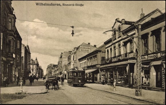 A postcard from 1918 showing Wilhelmshaven's Bismarck Street. Featuring a tram, a horse-drawn vehicle and a hairdresser ("Friseur" sign to the right).